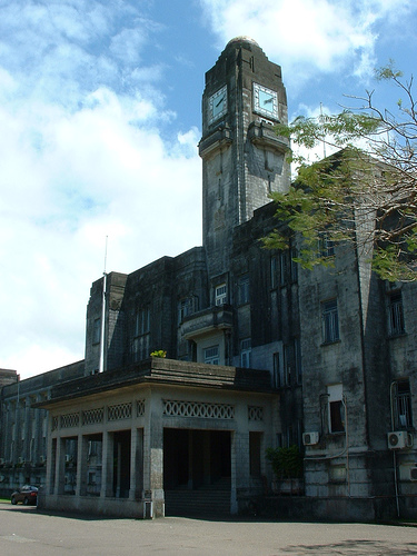 Clock Tower, Govt Buildings, Suva